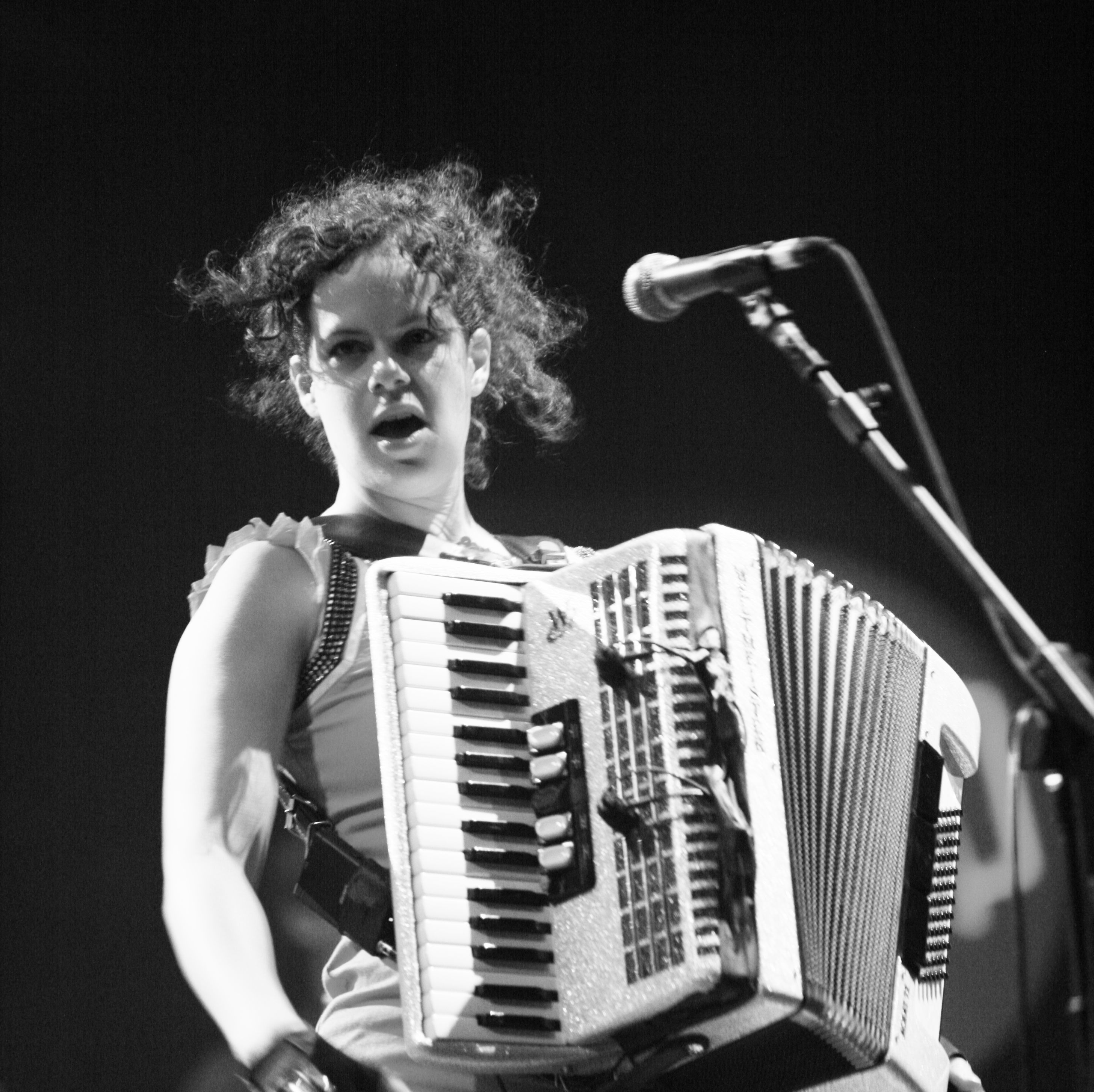 Arcade Fire at the Eurockéennes of 2007